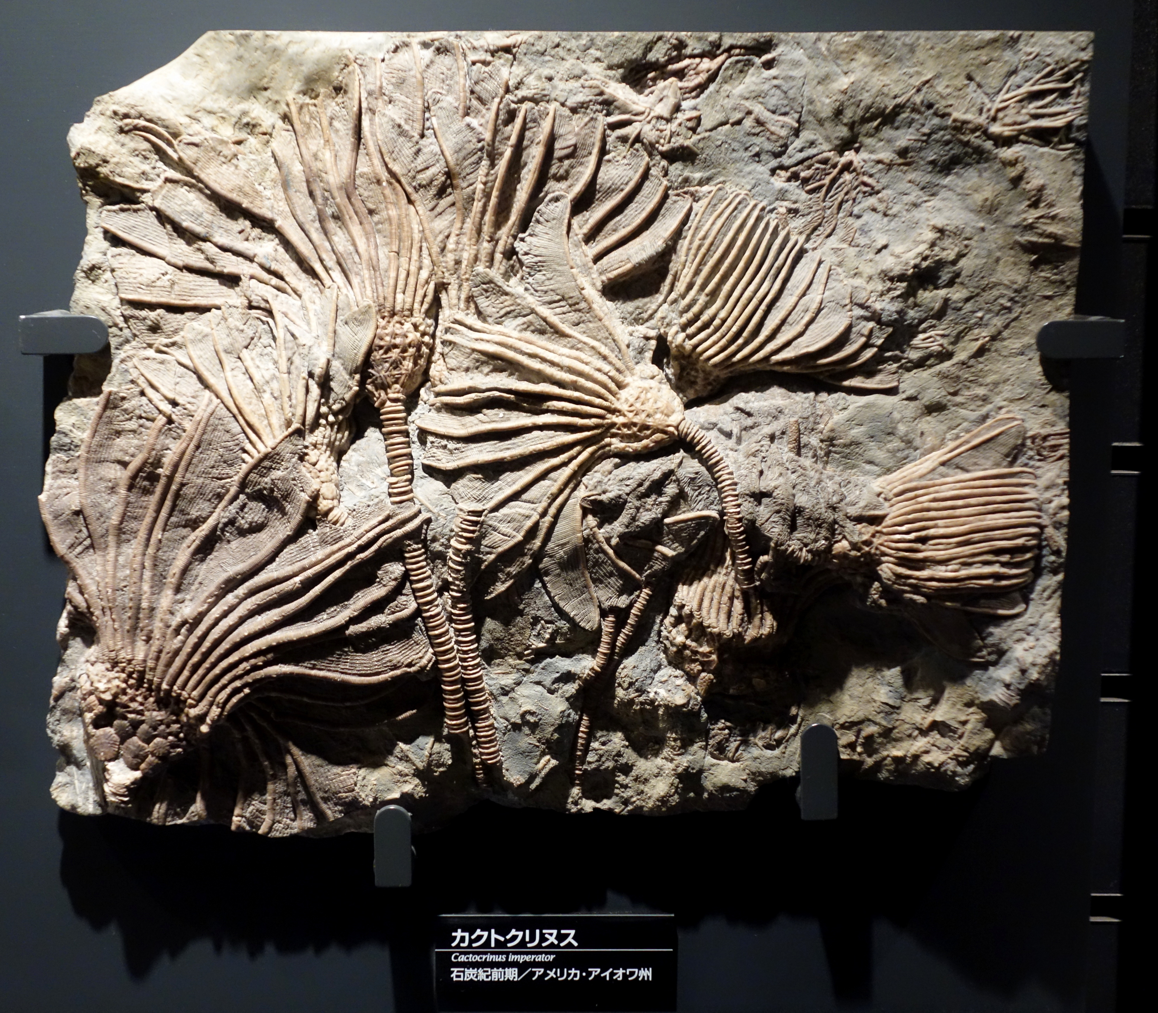 Exhibit in the National Museum of Nature and Science, Tokyo, Japan.